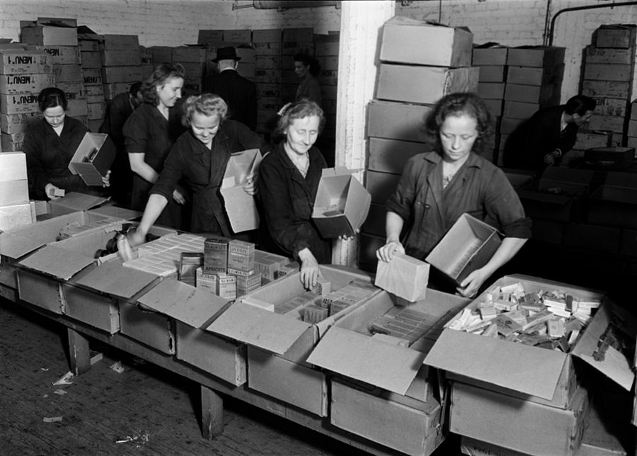 Food packages coming from surplus material from the U.S. army are assorted at Finland's Departement of National Food Supply.